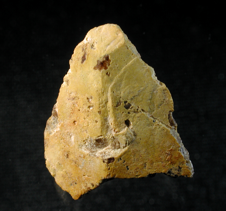 Anatase Locality: Jones Mine, Zirconia (Tuxedo Station), Henderson Co., North Carolina, USA Original description: Anatase, pseudomorph after a wedge-shaped titanite crystal, 20 x 12 x 8 mm., Jones Mine, Zirconia, North Carolina. Ex-Ed Swoboda Collection. K. Nash specimen & image.